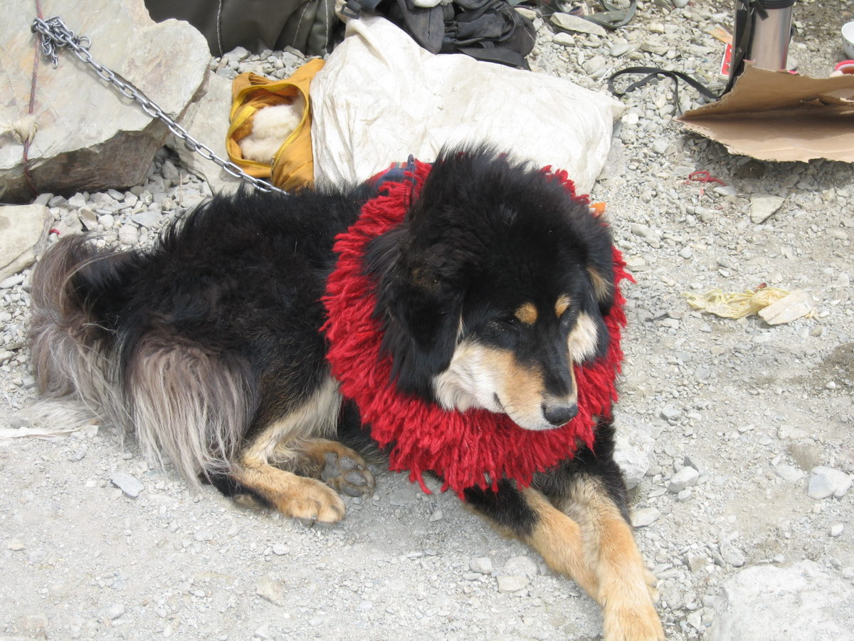 Tibetan Mastiff wearing a Khekhor collar